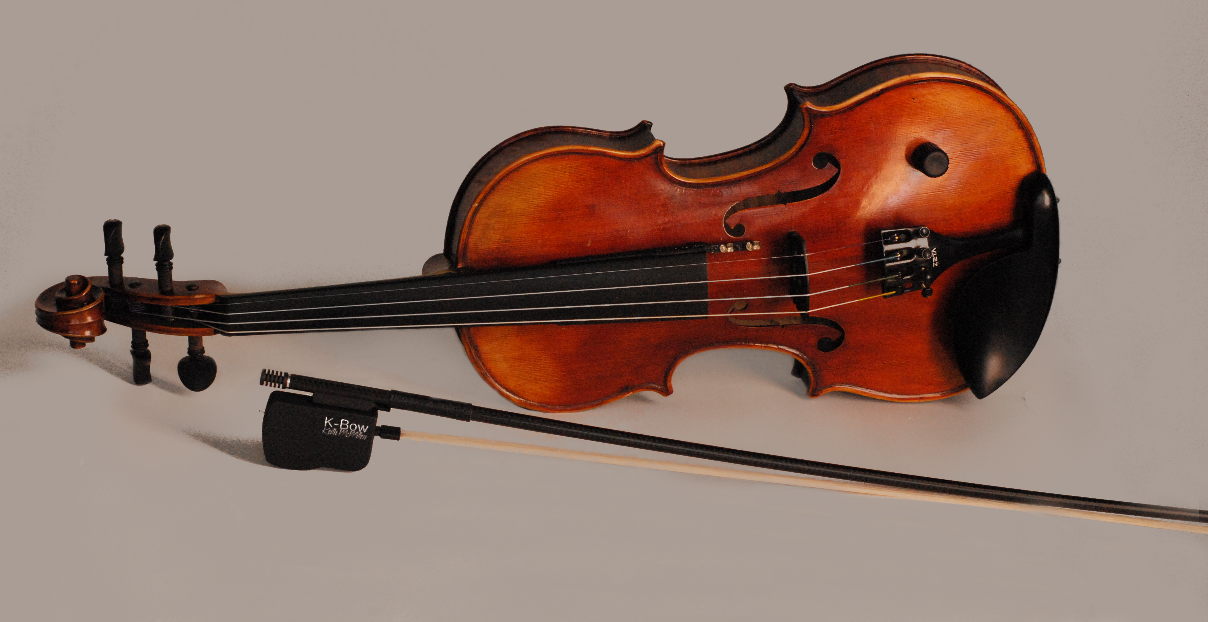 K-Bow, a bluetooth-enabled sensor bow for stringed instruments